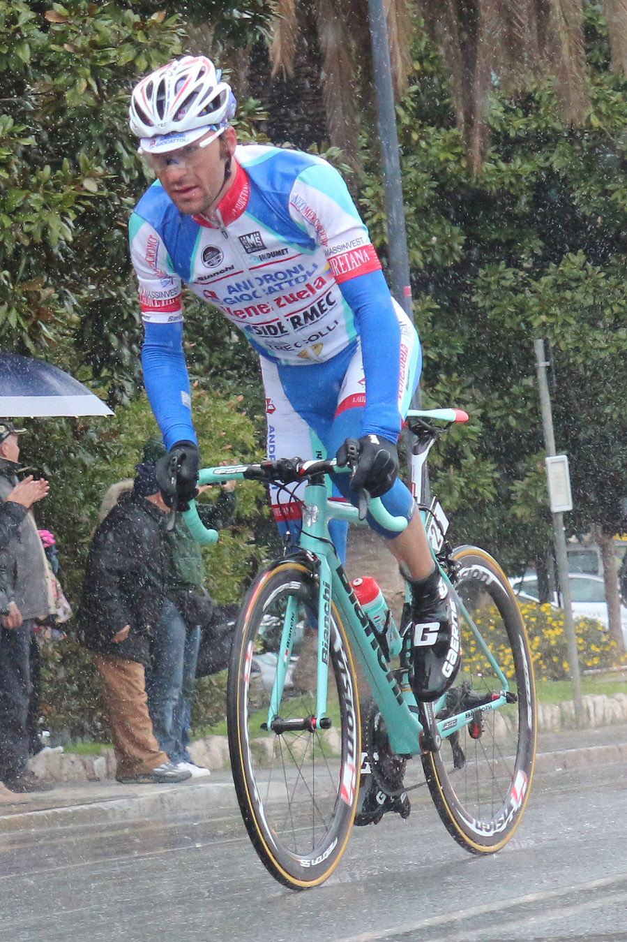 Antonino Parrinello at 2014 Milan-Sanremo in Savona